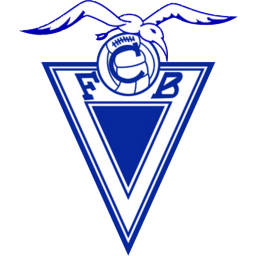 Historical badge of Club de Futbol Badalona. Digitally enhanced and with alpha channel.